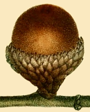 Plate from Histoire des arbres forestiers de l'Amérique septentrionale: Quercus incana - bluejack oak.Original caption: Quercus cinerea. Upland Willow Oak.